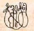 Vakhtang VI of Kartli monogram, 1707